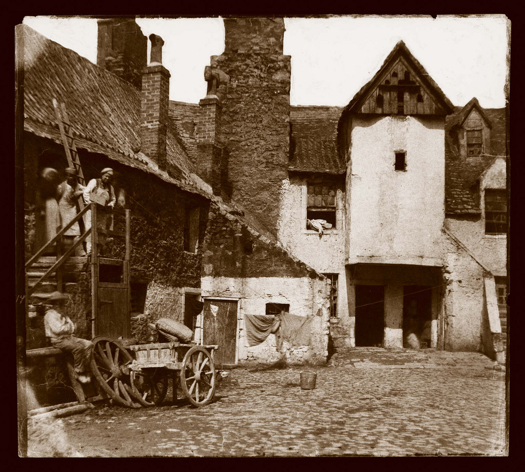 Whitehorse Close, north-east corner, Edinburgh